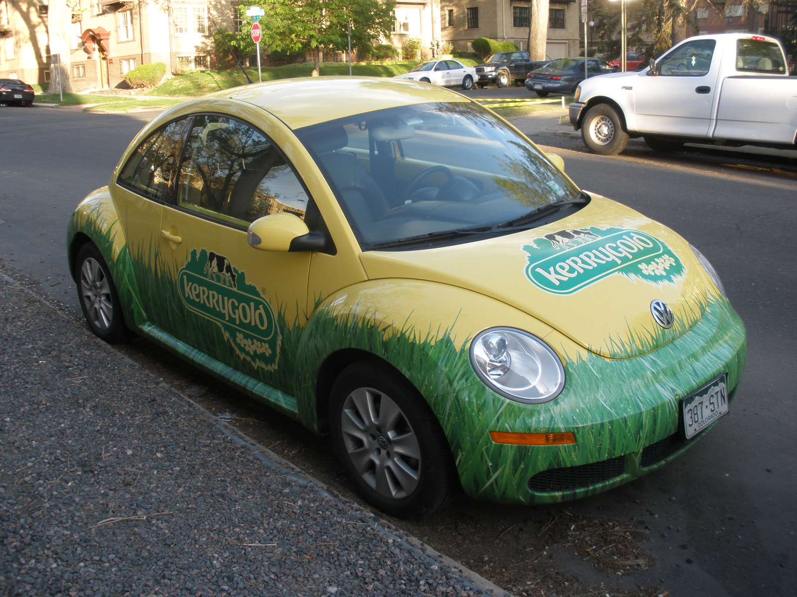 A Volkswagen New Beetle advertising Kerrygold Irish butter in Denver.